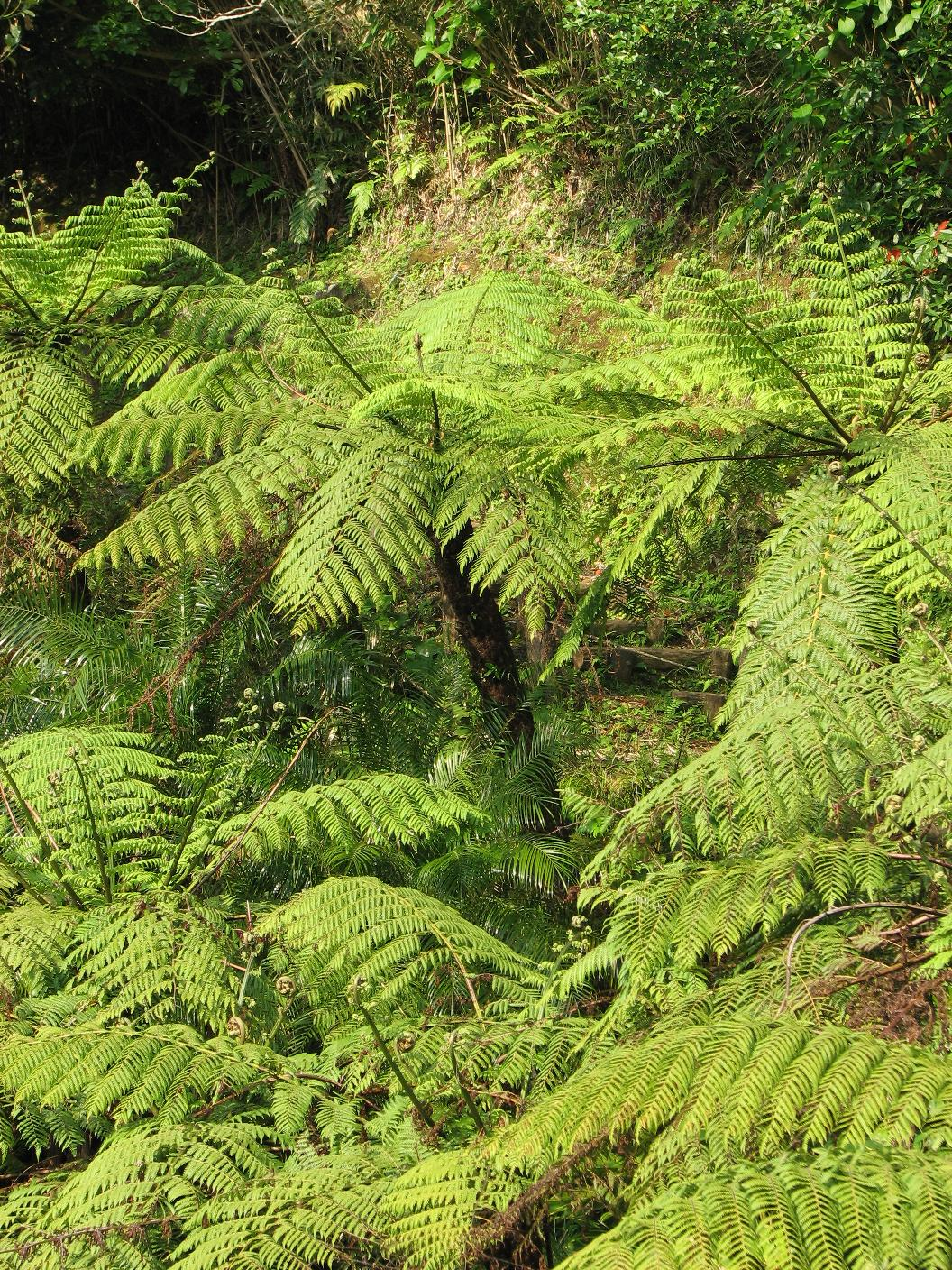 Cyathea spinulosa at Hachijo is. Japan. (ヘゴ・八丈島裏見ノ滝近辺